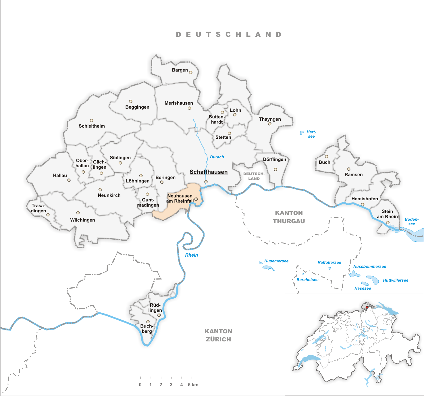 Municipality Neuhausen am Rheinfall